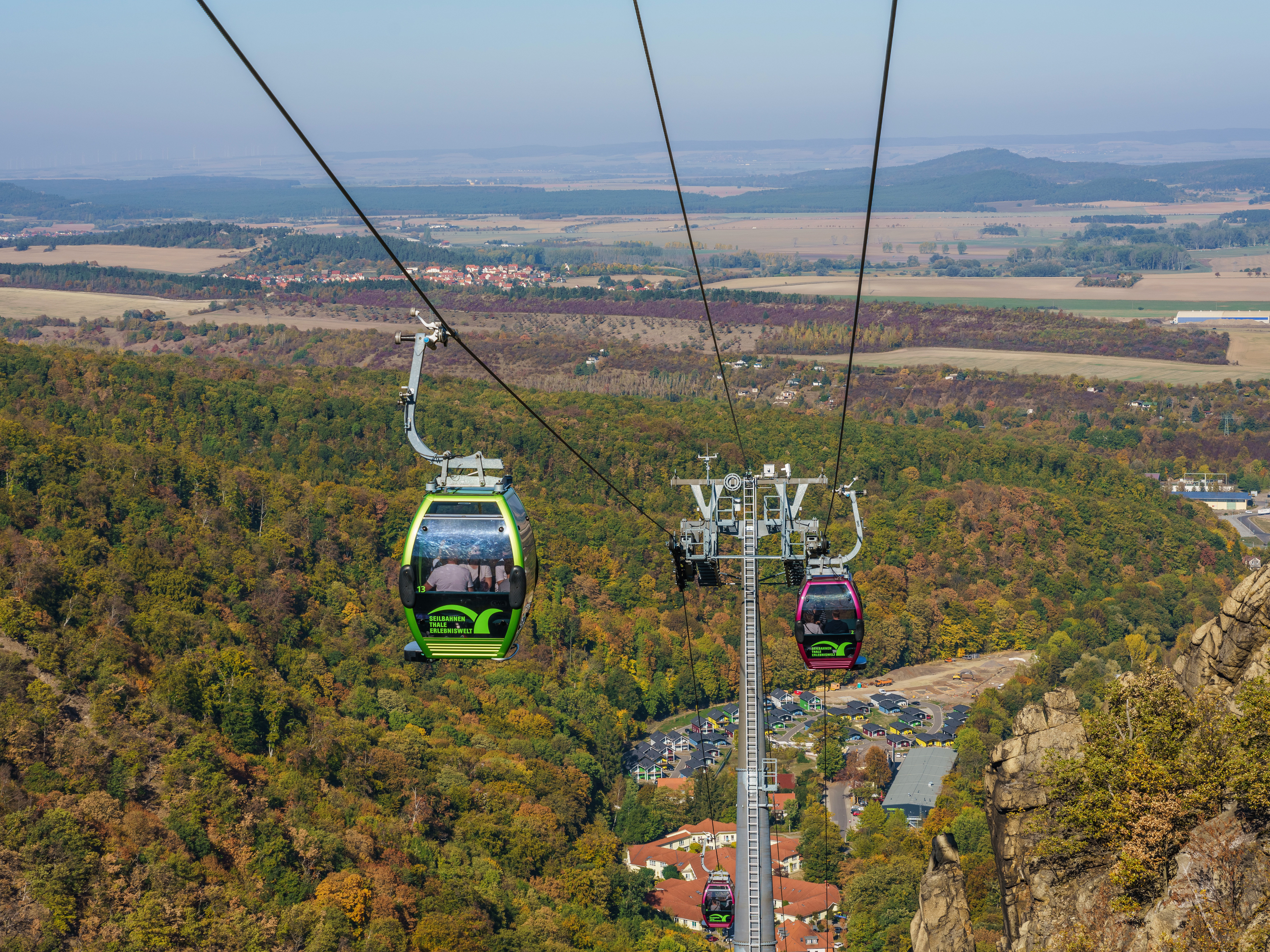 Gondola lift to Witches' Point in Thale, Germany